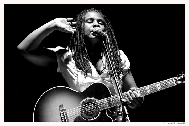 Ruthie Foster @ Liri Blues 2010